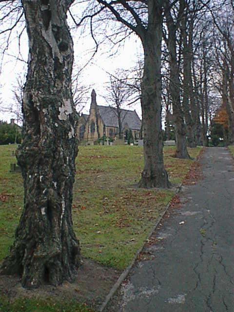 View northeast along one of the paths in the cemetery at Churchside, Hasland, Derbyshire, with St Paul's parish church in the distance